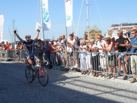 The winner of Rogaland Grand Prix 2008, Michael Tronborg Kristensen.